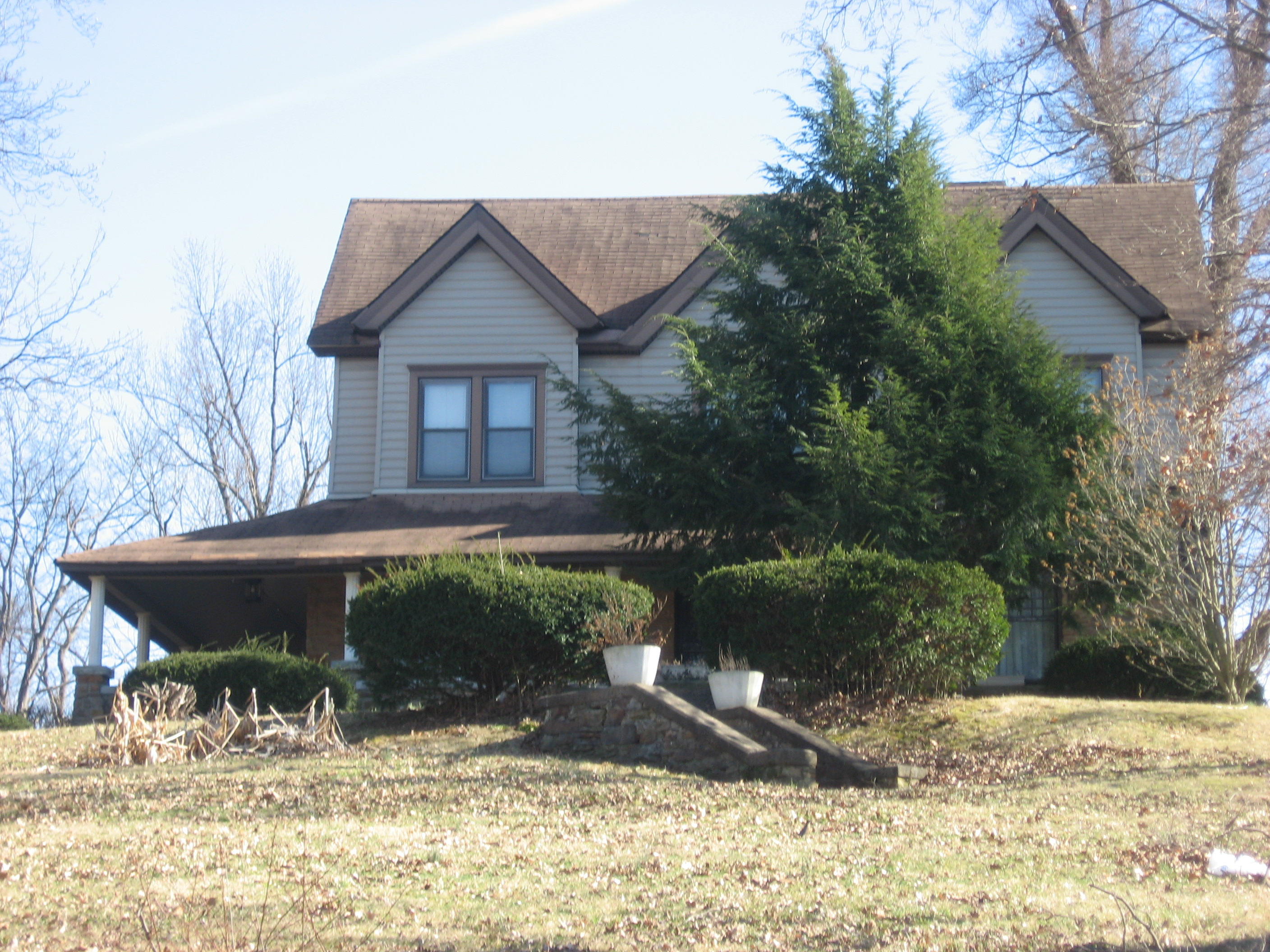 Front of the Frank K. Yost House, located at 1131 E. Seventh Street (Kentucky Route 107) in Hopkinsville, Kentucky, United States. Built in 1908, it is listed on the National Register of Historic Places.